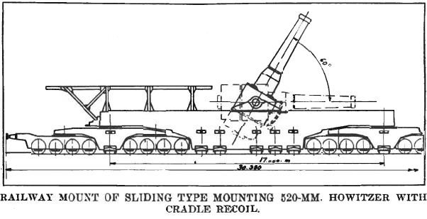 Right elevation diagram of French 520-mm railway howitzer.